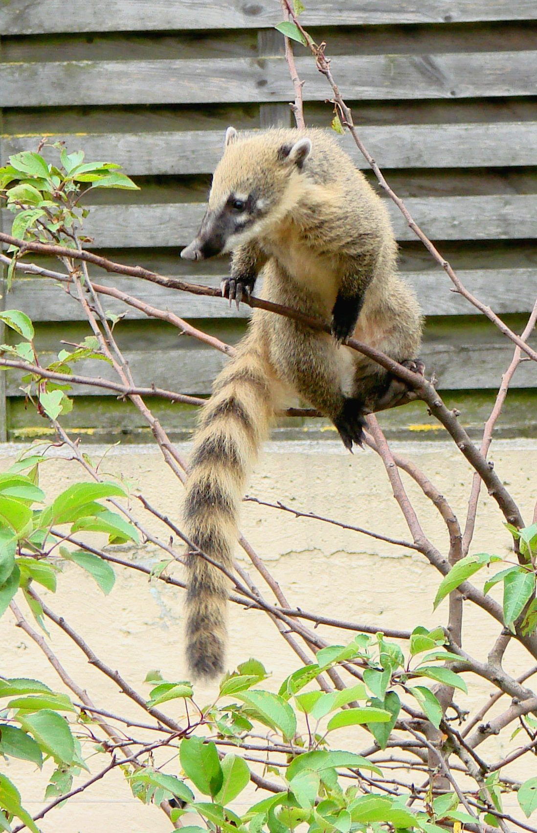 A Ring Tailed Coati (Nasua nasua). Amiens Zoo.